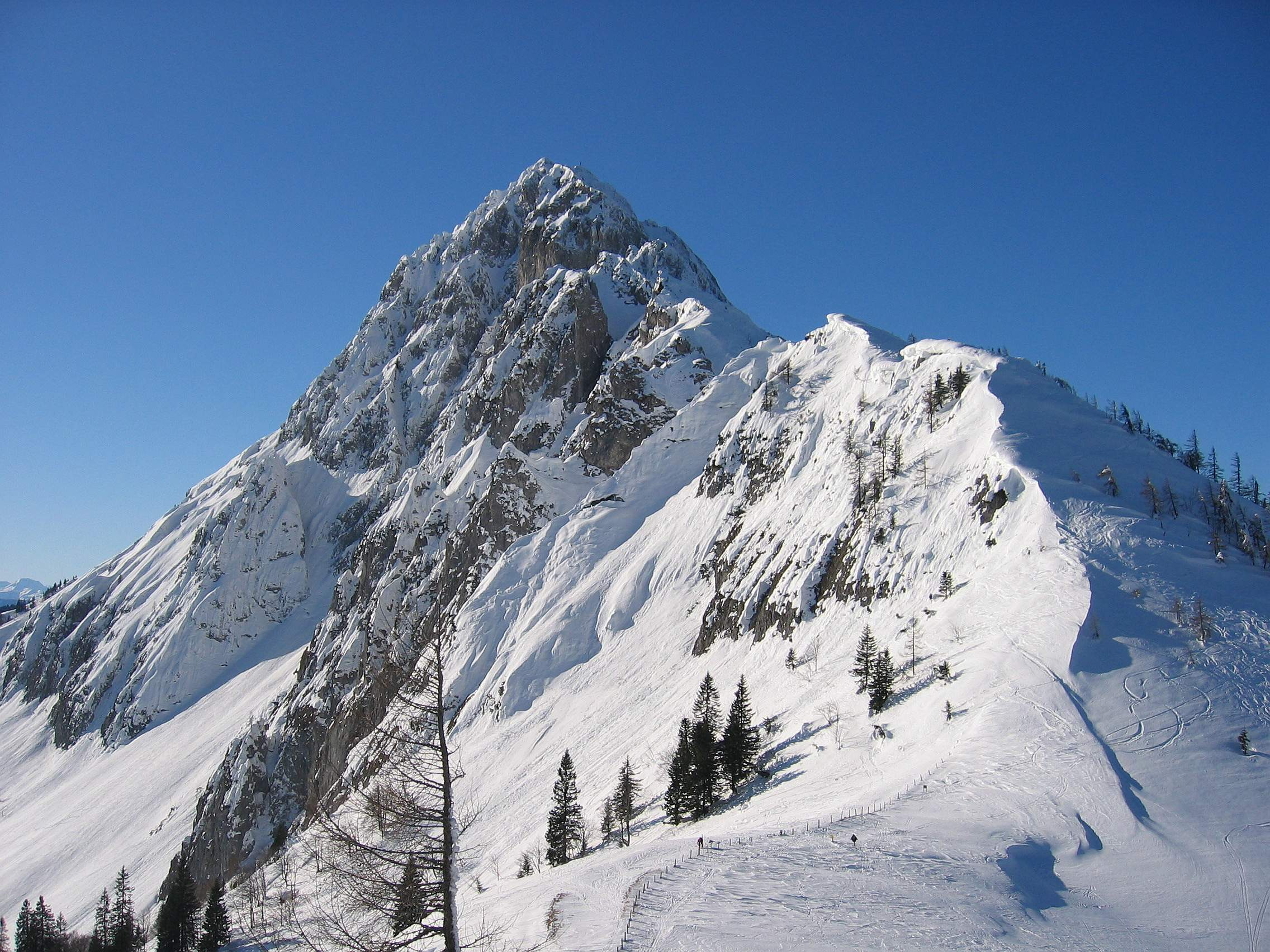 Bosruck (Souteast side) with Arlingsattel, Upper Austria, Austria